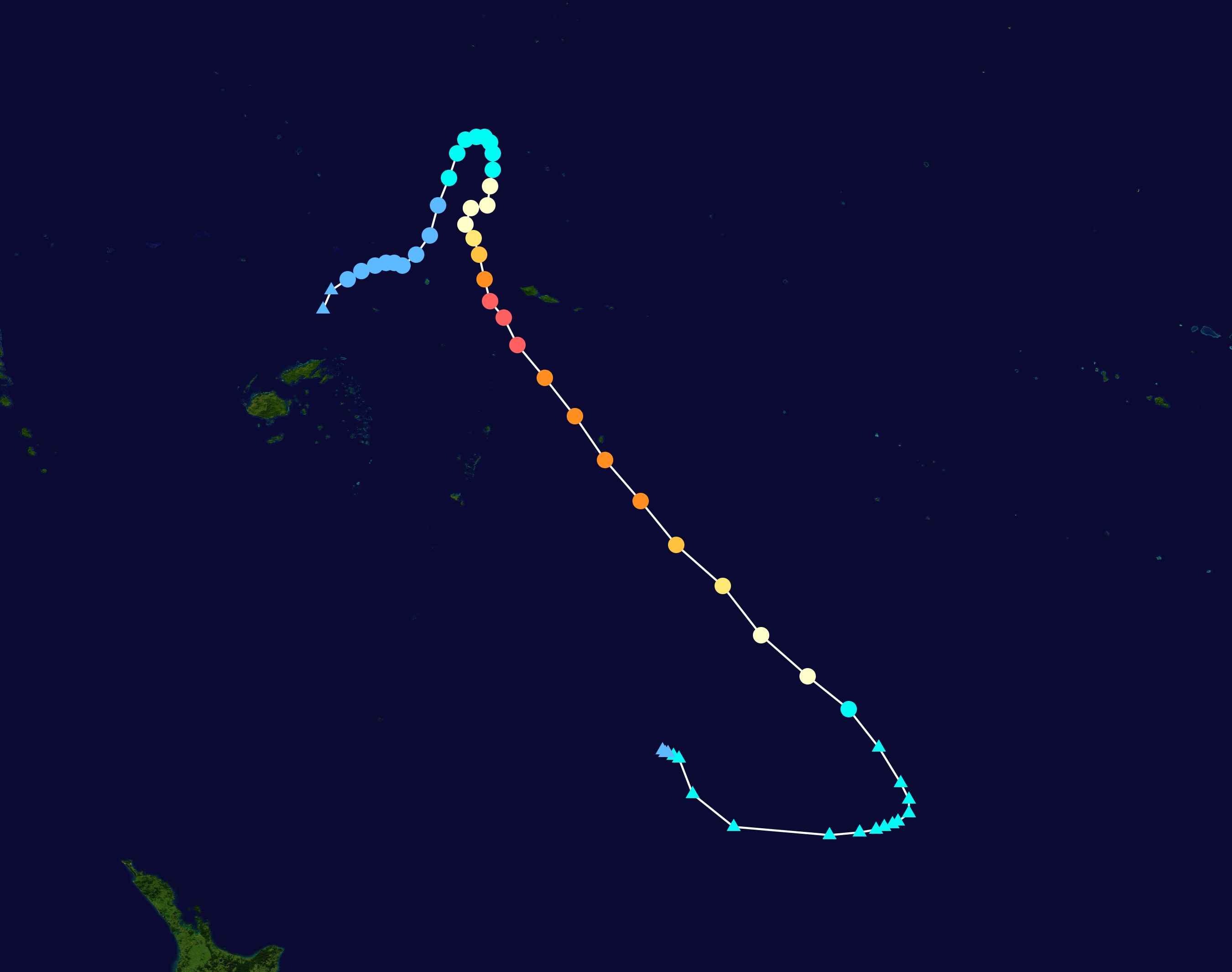 Cyclone Heta track. Uses the color scheme from the Saffir-Simpson Hurricane Scale. The points show the location of each storm at six-hour intervals. The colour represents the storm's maximum sustained wind speeds as classified in the Saffir-Simpson Hurricane Scale (see below), and the shape of the data points represent the nature of the storm. Saffir–Simpson hurricane wind scale Tropical depression≤38 mph≤62 km/h Category 3111–129 mph178–208 km/h Tropical storm39–73 mph63–118 km/h Category 4130–156 mph209–251 km/h Category 174–95 mph119–153 km/h Category 5≥157 mph≥252 km/h Category 296–110 mph154–177 km/h Unknown Storm typeTropical cycloneSubtropical cycloneExtratropical cyclone / Remnant low / Tropical disturbance